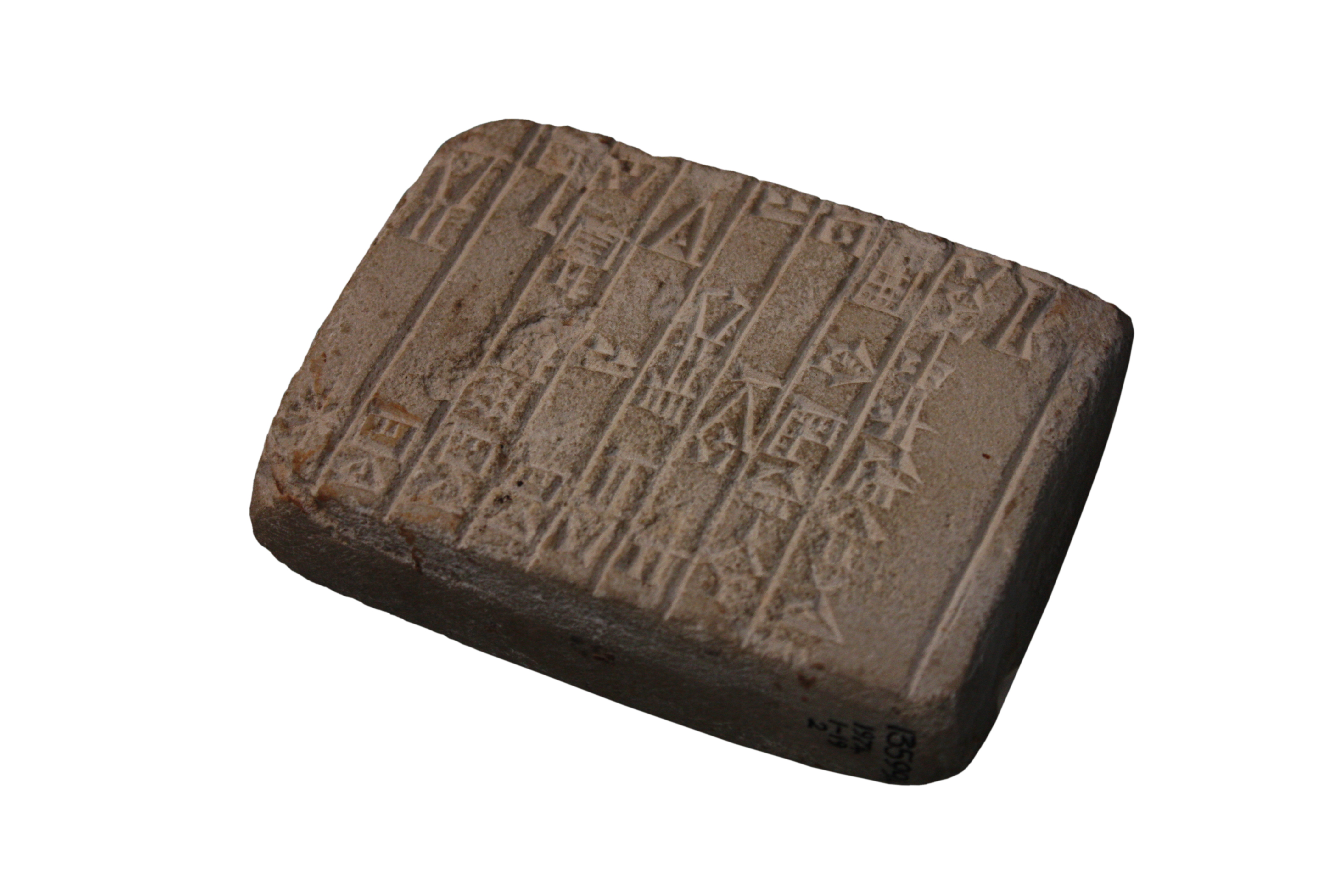 Foundation tablet. The inscriptions record the rebuilding of the temple of Nanshe in Nina by Gudea.